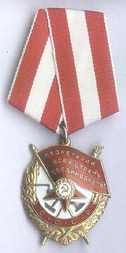 Soviet Order of the Red Banner